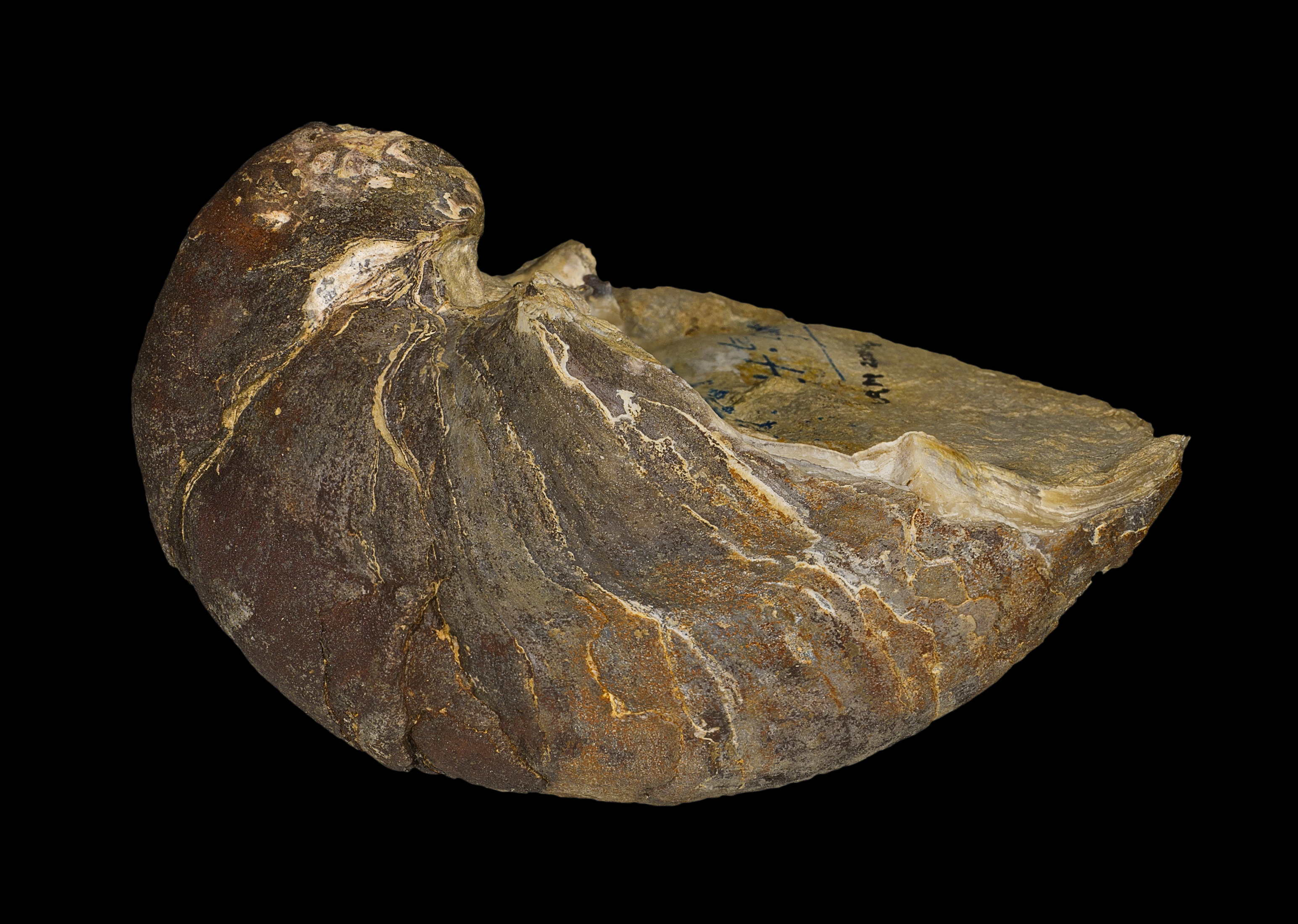 Pycnodonte vesicularis Lamarck, 1806 Stage : Campanian from 83.5 ± 0.7 Ma to 70.6 ± 0.6 Ma (million years ago) Locality: Roquefort-sur-Garonne, Haute-Garonne, France Size : 12 x 9.6 x 6.9 cm 687.9g cm